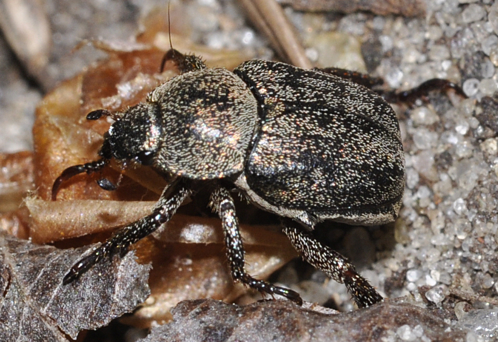 Hoplia graminicola (Fabricius, 1792). Germany: Brandenburg, Werder near Potsdam.